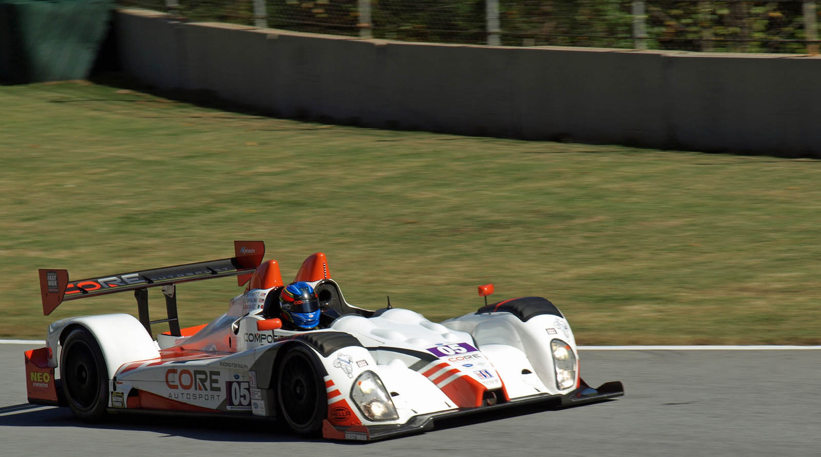 Colin Braun in the Core Autosport Oreca FLM09-Chevrolet during qualifying for the 2012 Petit Le Mans